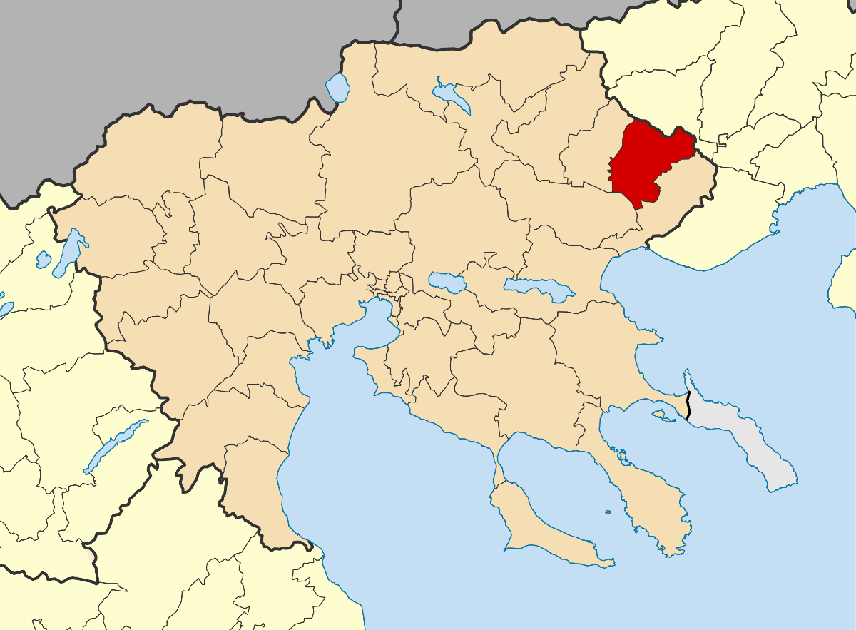 Locator map for Nea Zichni municipality in Greek region Central Macedonia (2011)